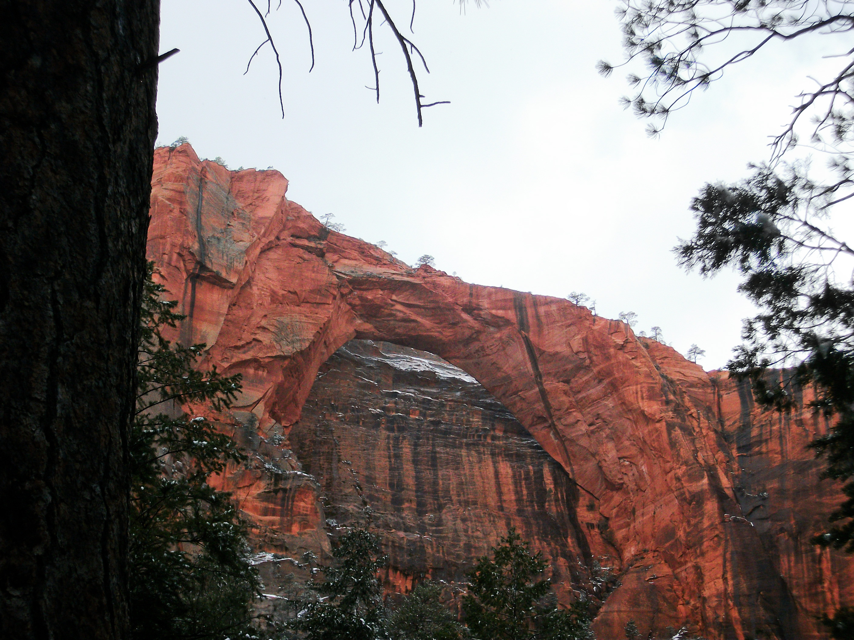 A photo of the Kolob Arch